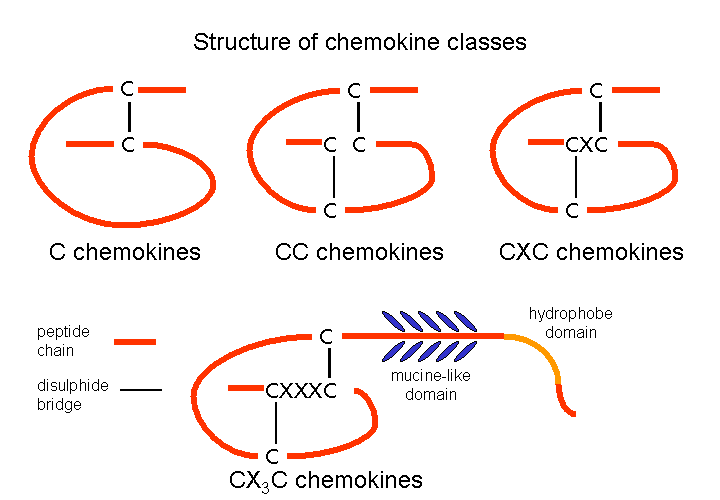 Structure of chemokine families